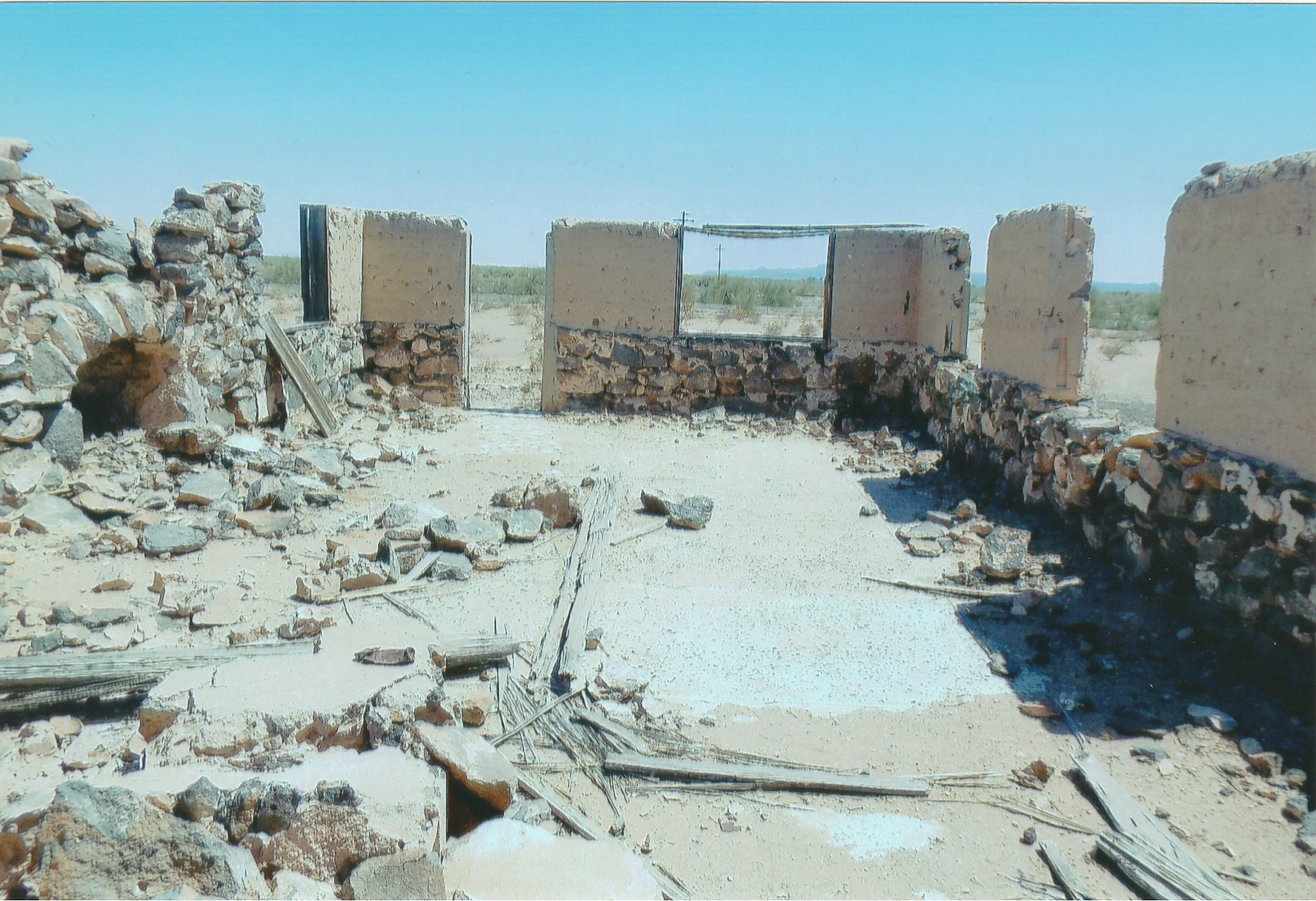 The Nate Salsbury house - Salsbury was a mining partner of William F. Cody a.k.a. Buffalo Bill Cody. Buffalo Bill resided for a short time with his friend. A wall inside the house has the name “Bill Cody 1902” scratched on it, the same year that Salsbury died and Cody headed to the town of Oracle, Az. The ruins of the stone house are located on the frontage road just off the Spot Road in Dateland.